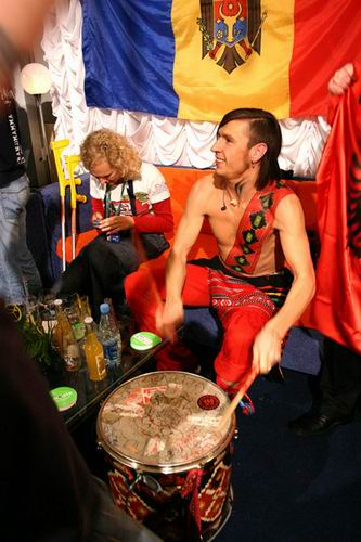 Foto Zdob si Zdub